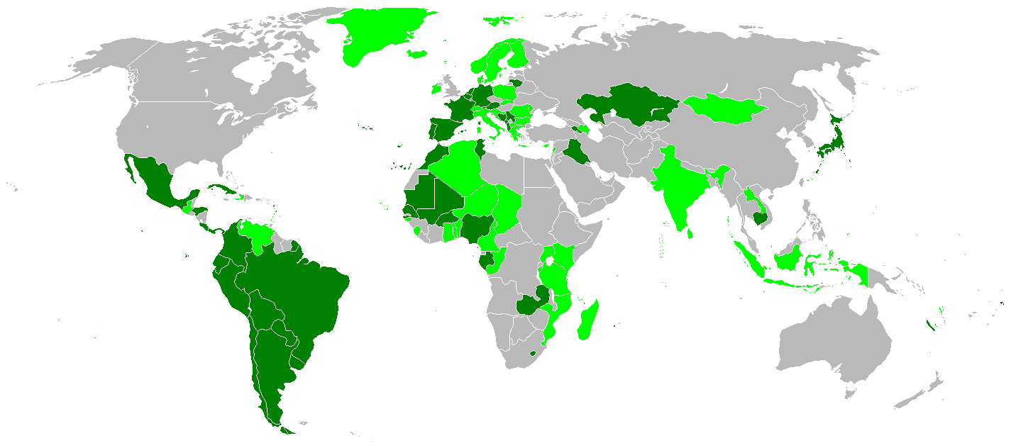 A map of signatories to the International Convention for the Protection of All Persons from Enforced Disappearance at 18 Dec 2008